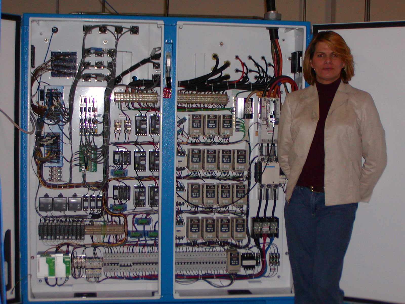 Lauren Scott pictured with the control panel for the BiodieselMaster.